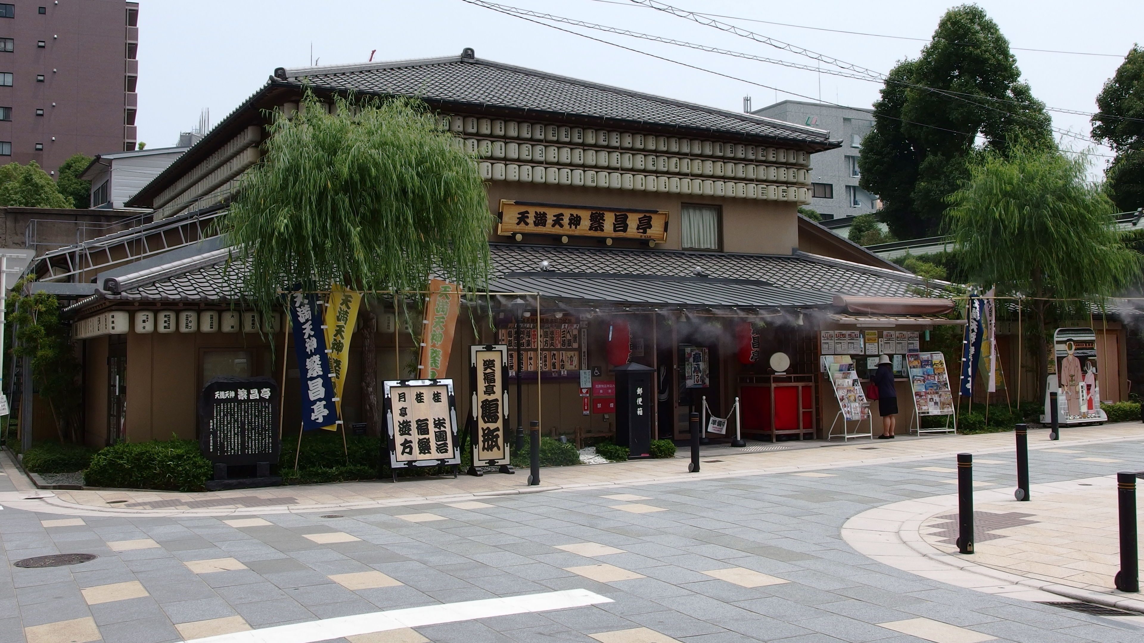 Temma-Tenjin_Hanjo-tei, Osaka, Osaka prefecture, Japan